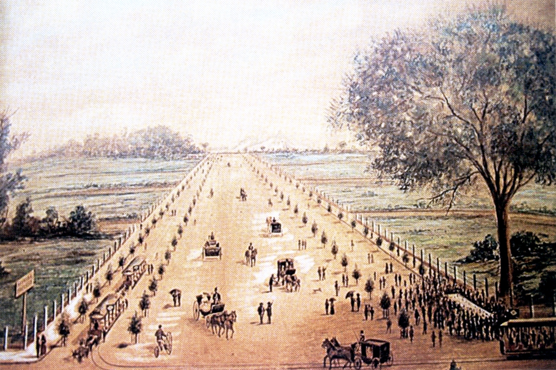 Paulista Avenue innauguration on December 1891. Watercolor on paper. USP/MP Museum. Inauguração da Avenida Paulista em dezembro de 1891. Aquarela sobre papel. Museu USP/MP